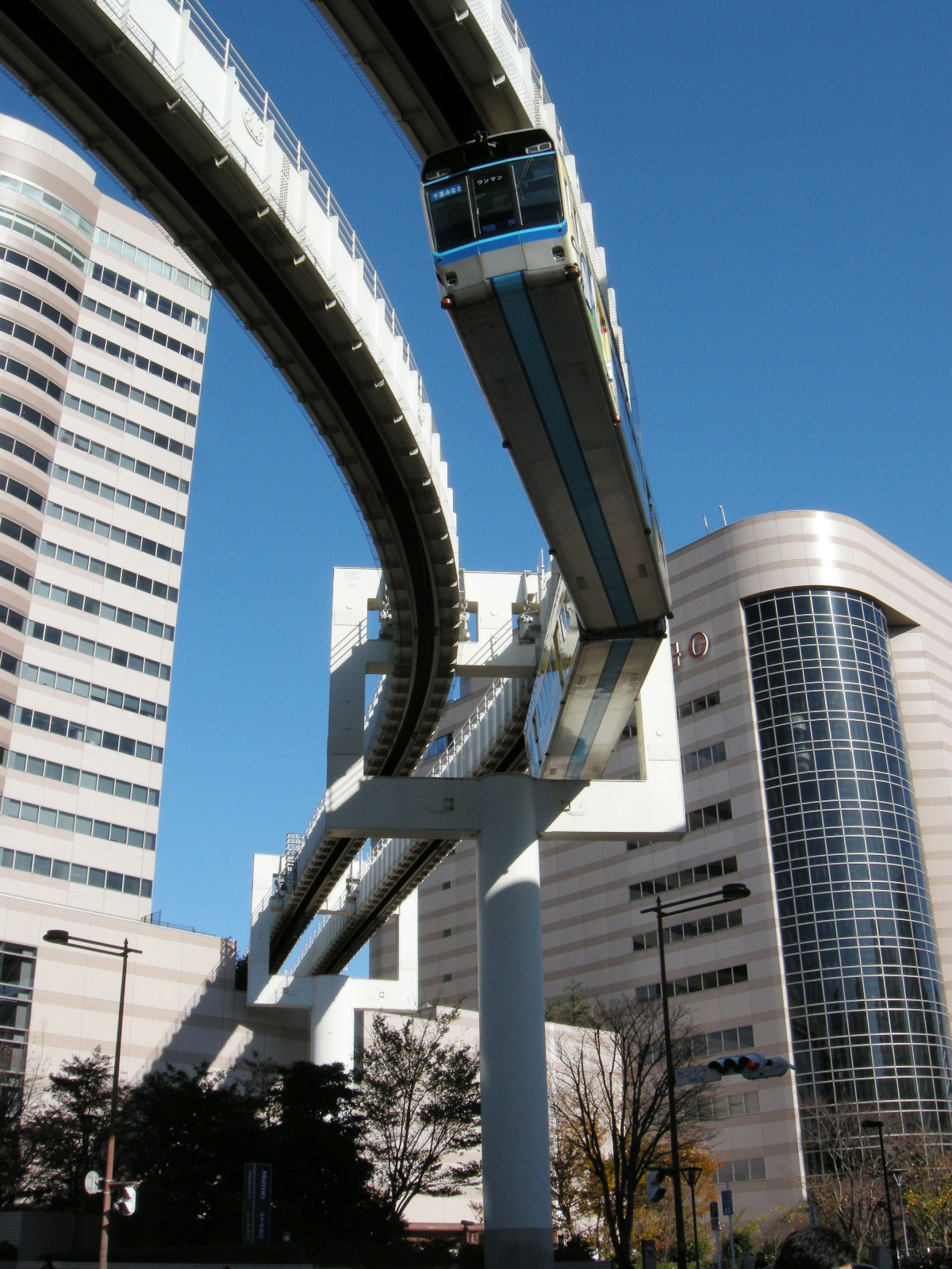 Series 1000 EC operated by Chiba Urban Monorail Co.,Ltd.